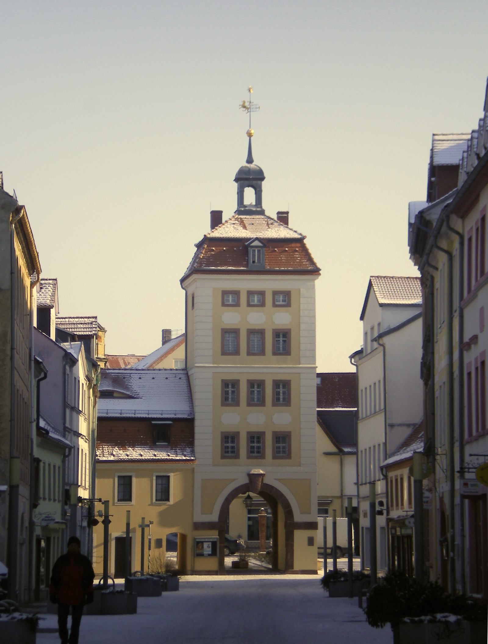 Town gate in Borna near Leipzig/Saxony